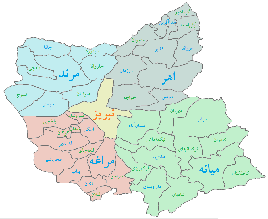 East Azarbaijan Regions